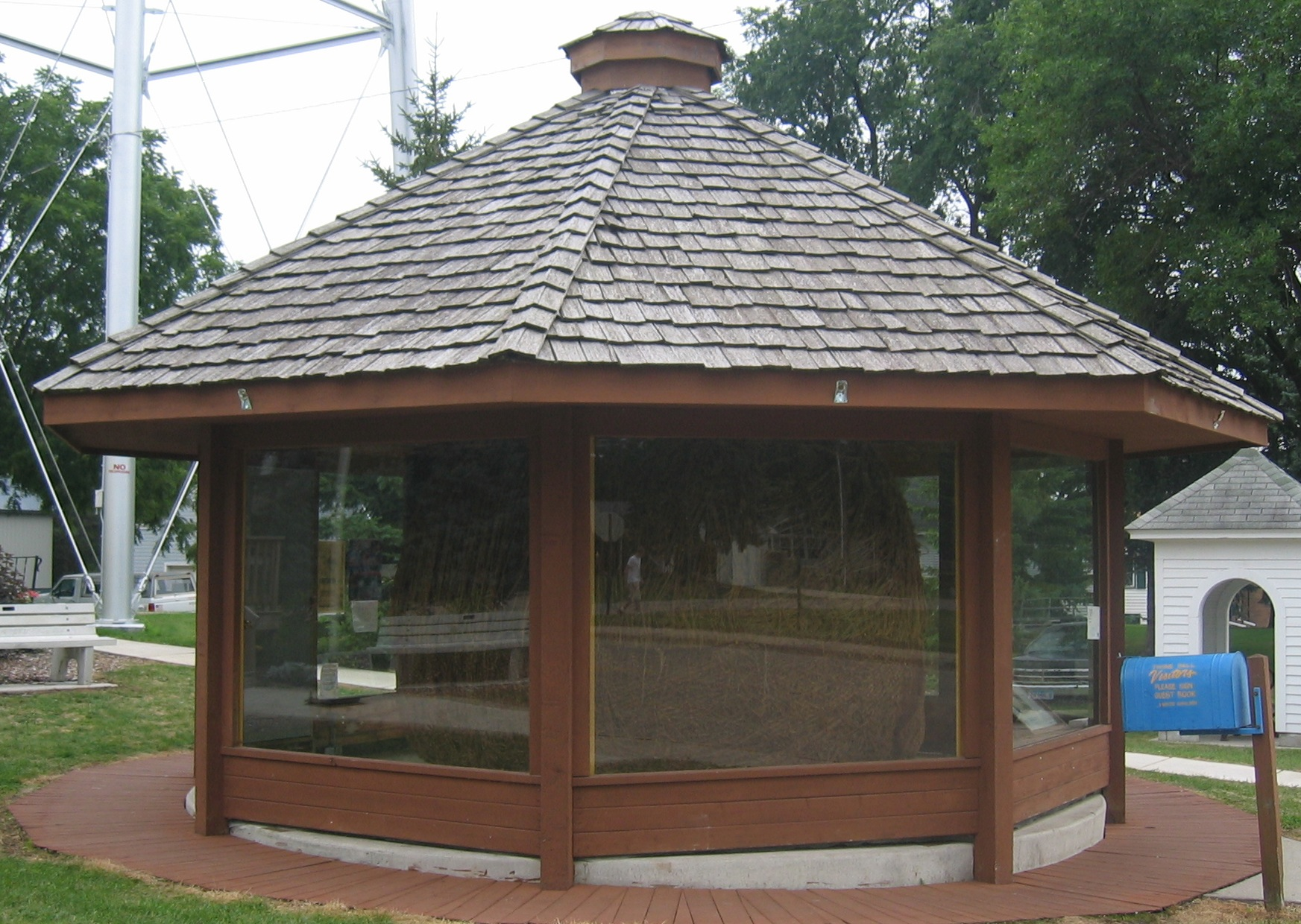 World's largest ball of sisal twine created by one man, Darwin, MN